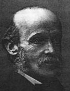 Alphonse Milne-Edwards